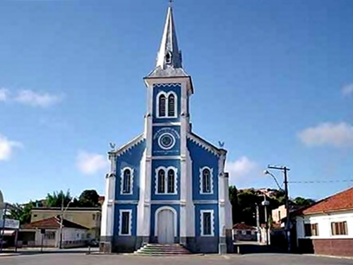 Picture of a XIX sigle church, in Brazil